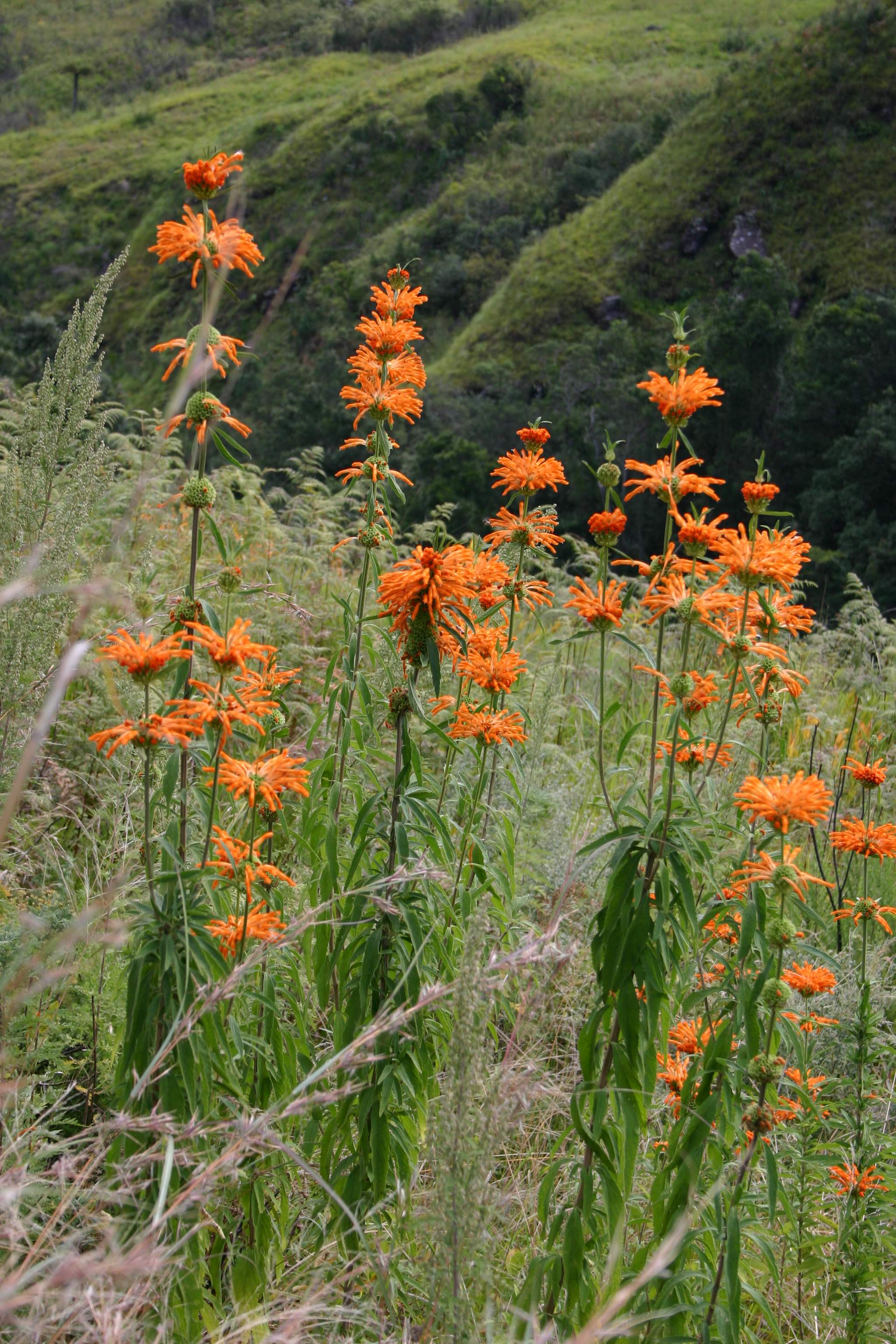 Leonotis leonurus (L.) R.Br., Monk's Cowl area, Natal Drakensberg, South Africa